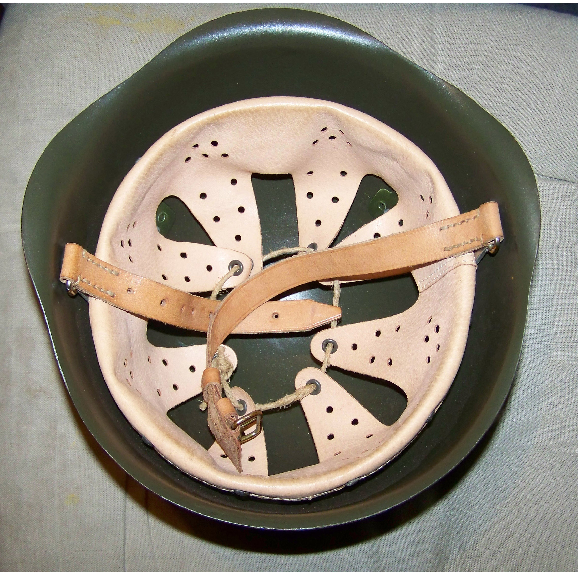 Interior of a steel helmet (Polish model 50) showing the liner and chinstrap